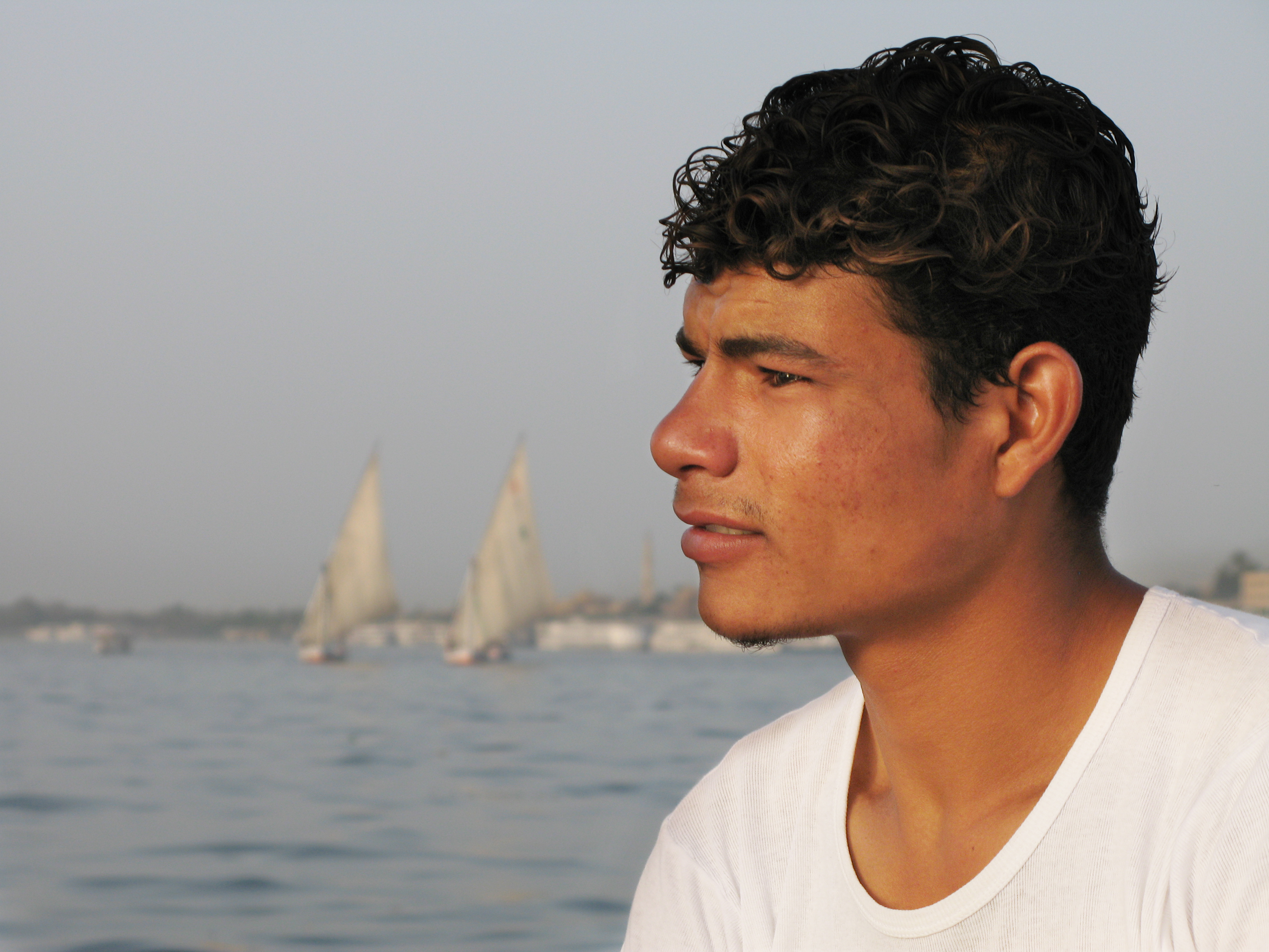 Deck Hand on Felucca in Luxor